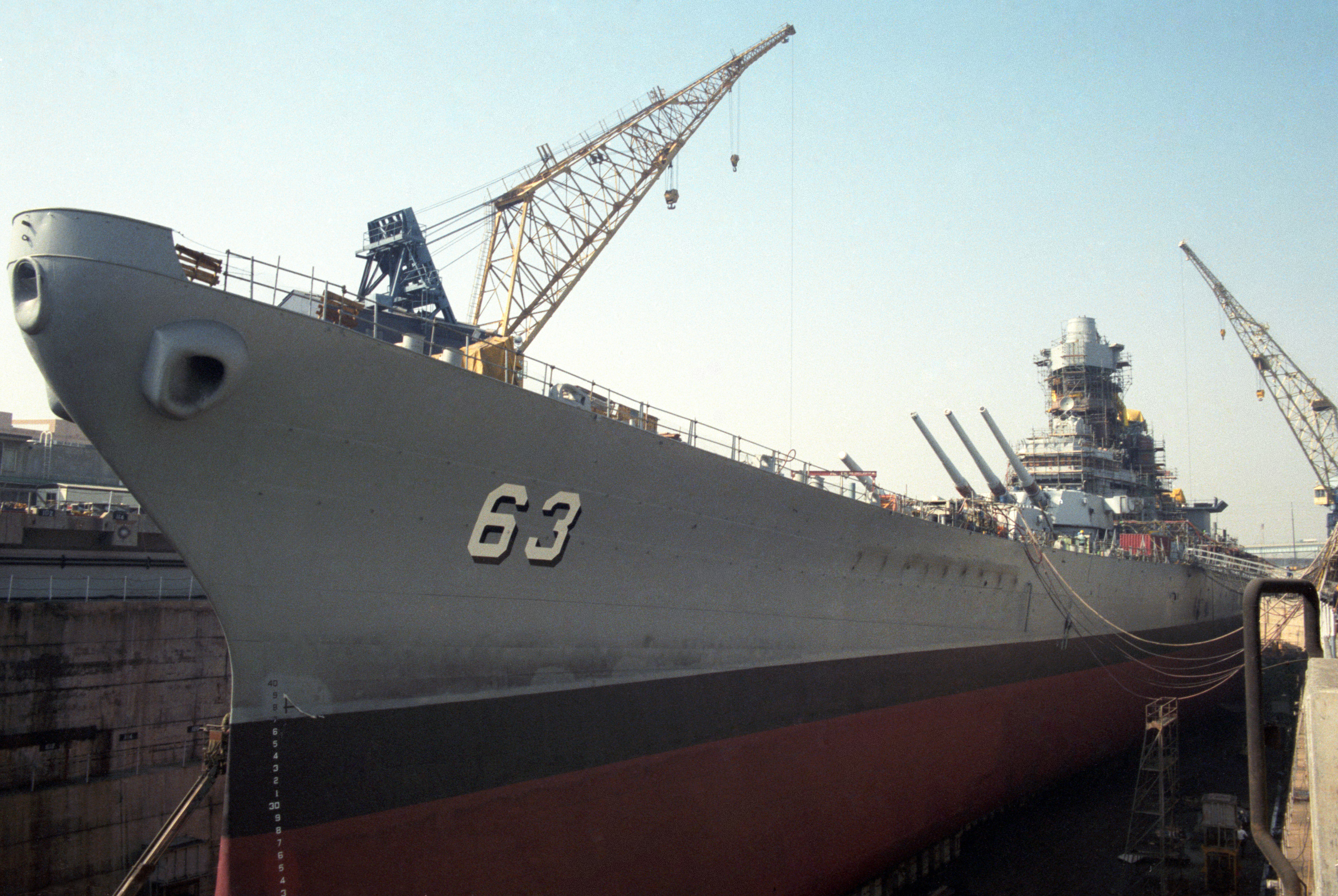 ID: DNSC8600760 A port bow view of the battleship USS MISSOURI (BB 63) undergoing reactivation and modernization. Location: LONG BEACH NAVAL SHIPYARD, CALIFORNIA (CA) UNITED STATES OF AMERICA (USA)